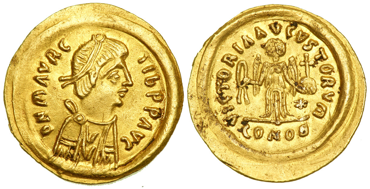 Maurice Tiberius, 582-602. Gold Tremissis (1.51 g) minted at Ravenna. Obverse: DN MAVRI TIb PP AVG - Diademed, cuirassed and draped bust right of Maurice Tiberius. Reverse: VICTORIA AVGVSTORVM - Victory advancing right with head left, holding wreath and globus cruciger; in lower right field, star. CONOB in exergue. D.O. 287; S. 592.